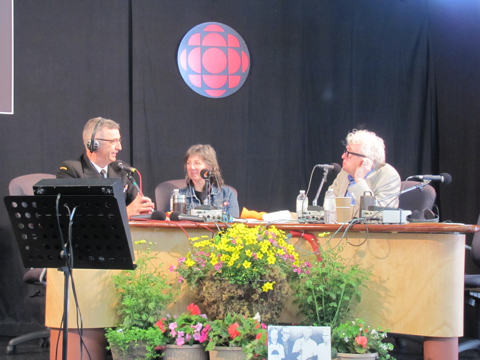 Hosts Don Connolly and Louise Renault interview Rear Admiral John Newton on the CBC Halifax Radio show "Information Morning" during a special public broadcast at the Halifax Seaport Market on June 20, 2014. The broadcast marked the show's 44th anniversary.